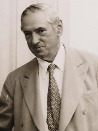 Laying cornerstone of new Traffic Building Southampton Street [James Michael Curley], July 6, 1949. (Collection # 5110.002), City of Boston Archives